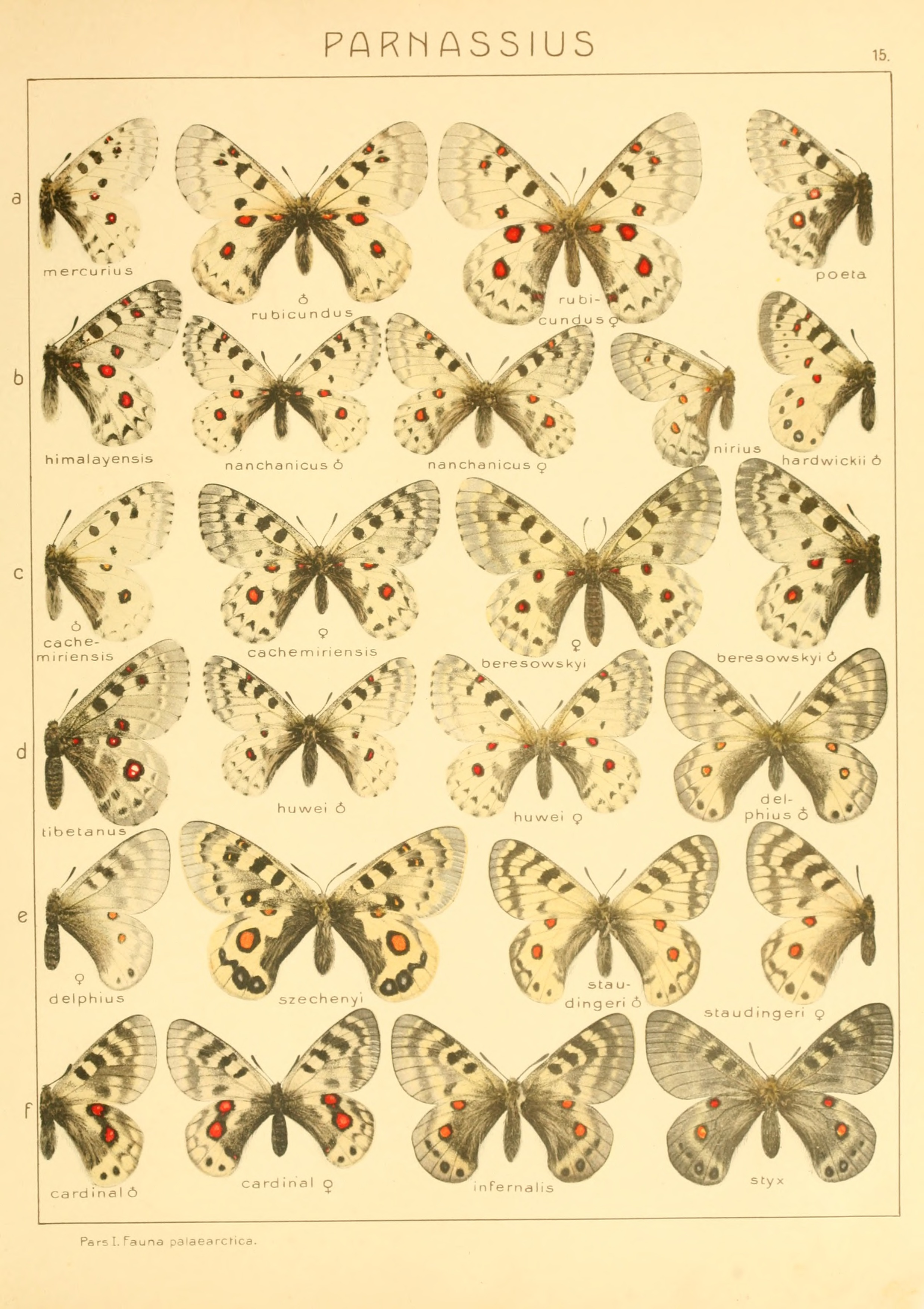 Stichel in Seitz, 1906 (Parnassius). Plate Tab.15 Plate from Seitz, A. Ed., 1900-1909 Die Großschmetterlinge der Erde, Verlag Alfred Kernen, Stuttgart Die Großschmetterlinge des palaearktischen Faunengebietes (The Macrolepidoptera of the world : a systematic account of all the known Macrolepidoptera) Band 1: Abt. 1, Die Großschmetterlinge des palaearktischen Faunengebietes, Die palaearktischen Tagfalter. read text (in German) See The Global Lepidoptera Names Index for valid names mercurius Parnassius jacquemontii Boisduval, 1836 race mercurius Gr.-Grsh. rubicundus Parnassius jacquemontii Boisduval, 1836 form rubicundus Stich poeta Parnassius epaphus Oberthür, 1879 form poeta Oberth. himalayensis Parnassius jacquemontii Boisduval, 1836 variety himalayensis Elw. nanchanicus Parnassius epaphus Oberthür, 1879 form nanchanicus Aust. nirius Parnassius jacquemontii Boisduval, 1836 ab. nirius Moore hardwickii Parnassius hardwickii Gray, 1831 cachmiriensis Parnassius epaphus Oberthür,1879 dry season form cachmiriensis Oberth. beresowskyi Parnassius epaphus subsp. beresowskyi Staudinger, 1901 tibetanus Parnassius jacquemontii Boisduval, 1836 variety tibetanus Rühl (Leech Ms) huwei Parnassius epaphus Oberthür, 1879 form huwei Fruhst. delphius Parnassius delphius Eversmann, 1843 szechenyii Parnassius széchenyii Frivaldsky, 1886 staudingeri Parnassius staudingeri A.Bang-Haas, 1882 cardinal Parnassius cardinal Grumm-Grshimailo, 1887 infernalis Parnassius delphius Eversmann,1843 ab. infernalis Elw. styx Parnassius delphius Eversmann,1843 ab. styx Stgr.